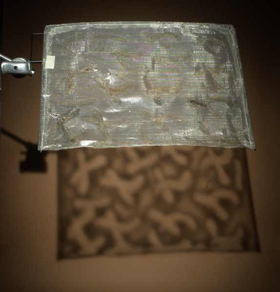 Known as a celo-cucoloris, or "cookie" in the motion picture industry. It's used in front of a light to break the beam into a dappled pattern. It's made of wire screen dipped in plastic with a pattern burned into it.